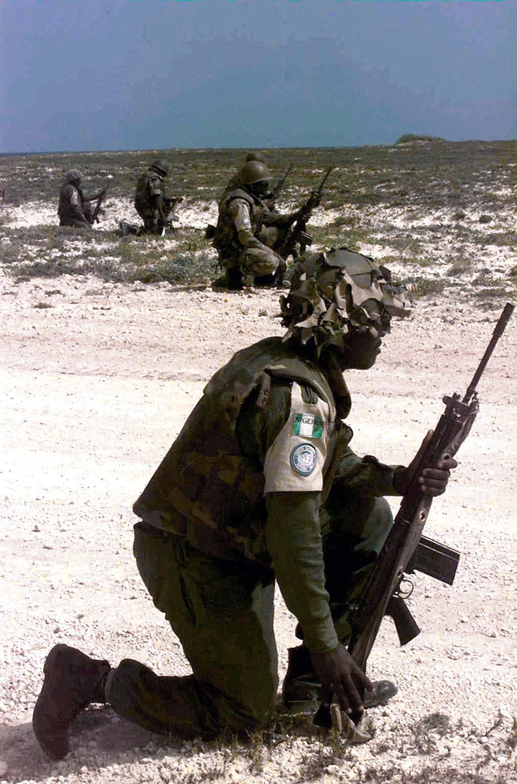 Operation / Series: RESTORE HOPE MORE CARE Right side profile of five members of the Nigerian Army kneeling on the ground about ten to fifteen feet apart. They are establishing a perimeter near the old airfield north of Mogadishu, Somalia. This mission is part of Operation More Care, which is in direct support of Operation Restore Hope. More Care provided the people of Mogadishu (not shown) with basic medical and dental from 2 December to 4 December 1993.